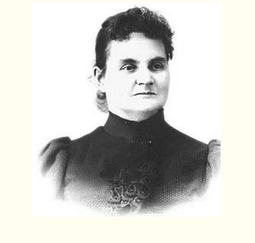 Pamela was a respected school teacher, an astute business woman and a founding member of the Olympia Woman's Club. In 1882, she became the first woman ever elected as Thurston County's Superintendent of Public Schools.